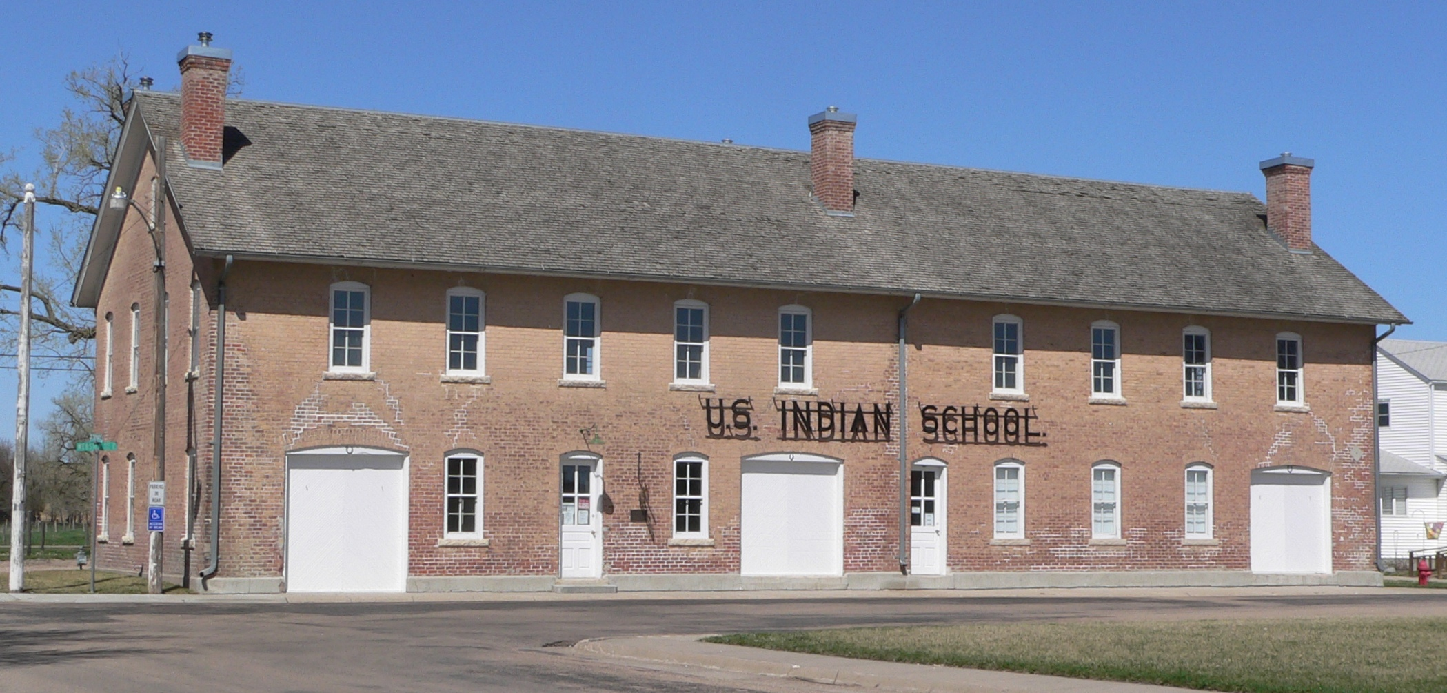 U.S. Indian Industrial School, located in the eastern part of Genoa, Nebraska. Shop building, now operated as a museum; seen from the southwest.